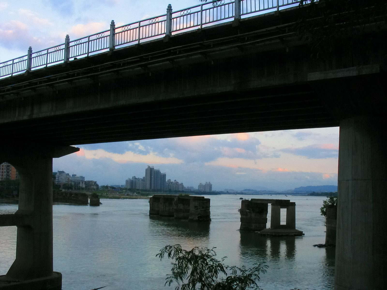 Hongshan Bridge, Hongshan, Fuzhou, China